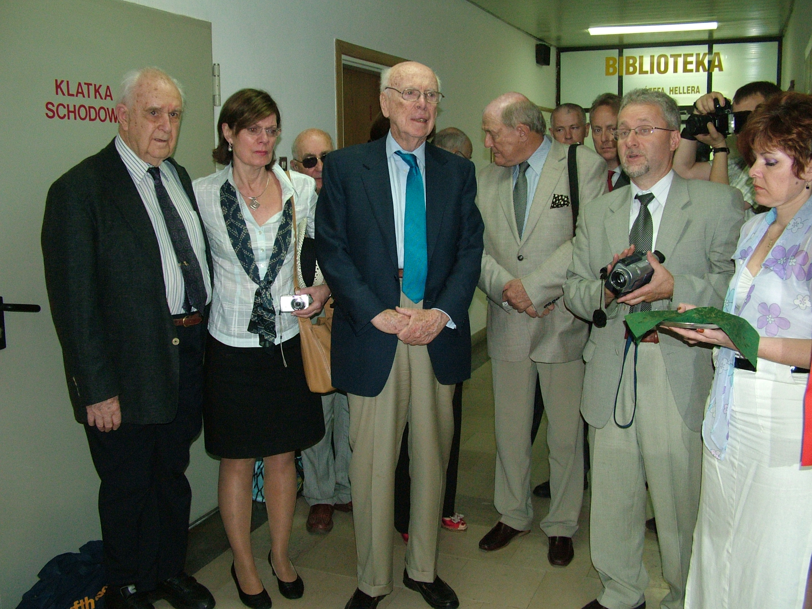 J. D. Watson and Wacław Szybalski in IBB PAN in Warsaw, 2008-06-24.